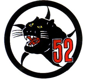 Internal coat of arms of the Bundeswehr (Armed Forces of the Federal Republic of Germany). → Remarks on naming and categorization scheme